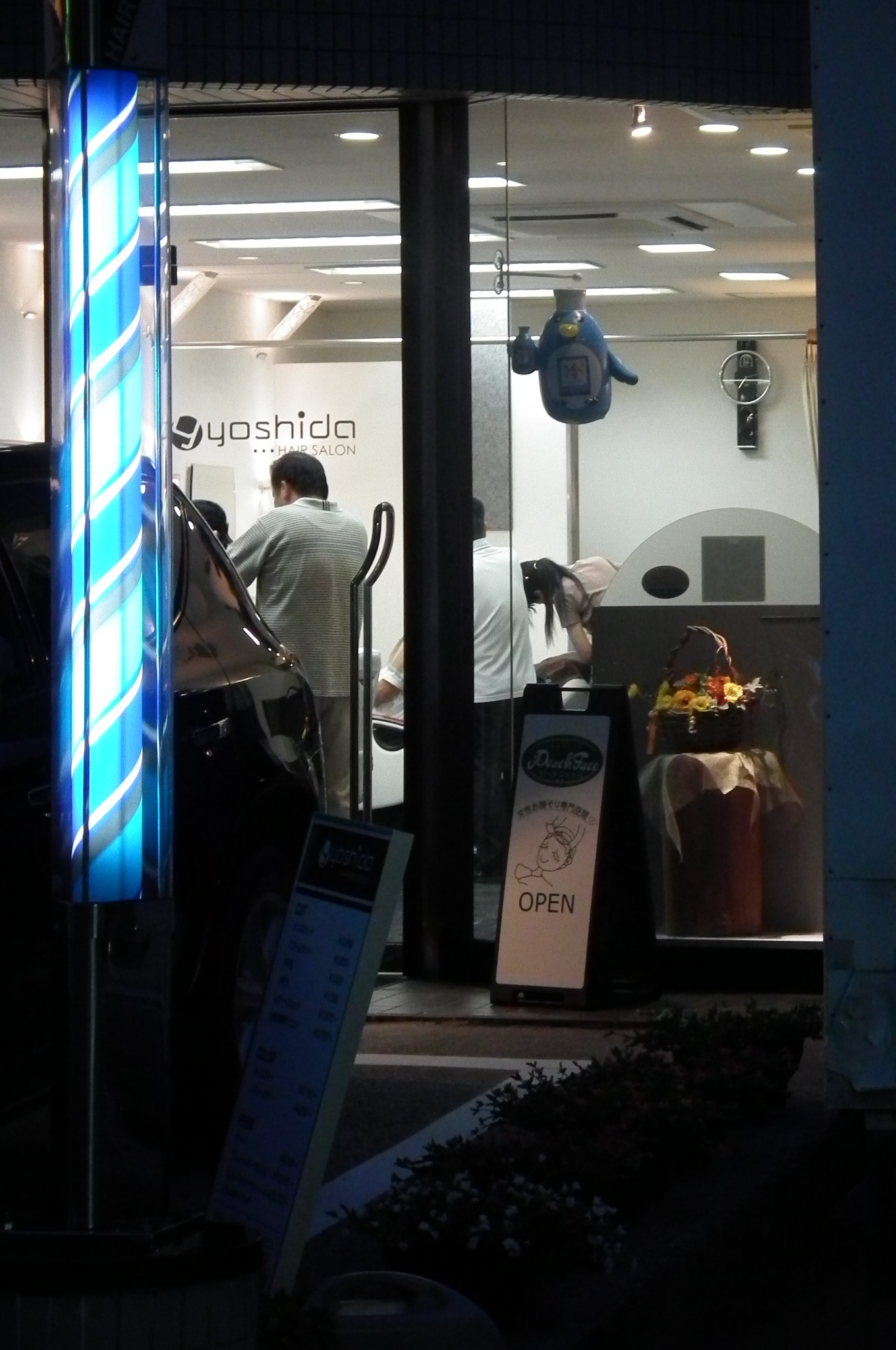 Yoshida Hair Salon - Yashiro, Kato, Hyogo Prefecture, Japan